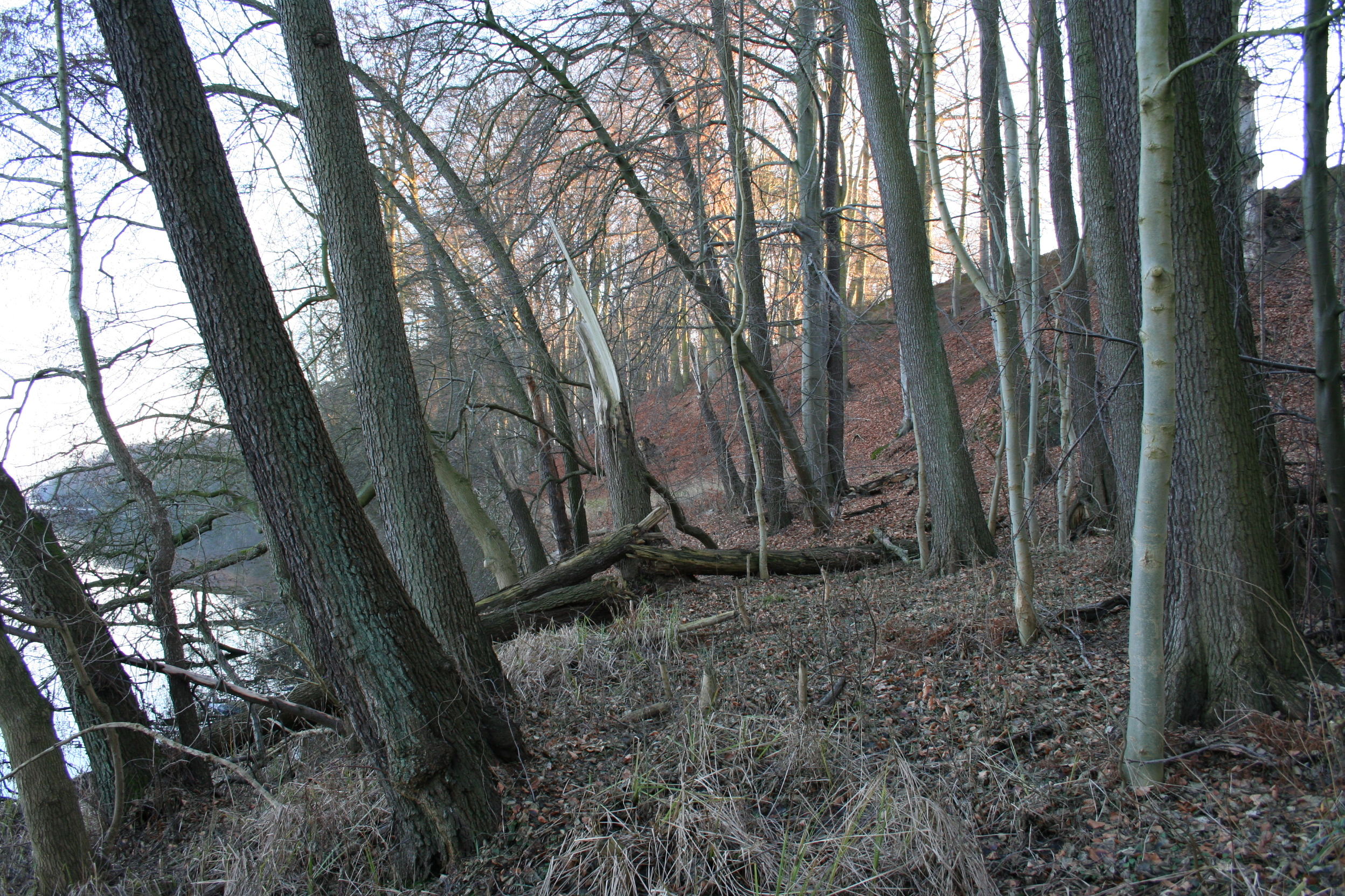 nature reserve - Buki nad jez. Lutomskim